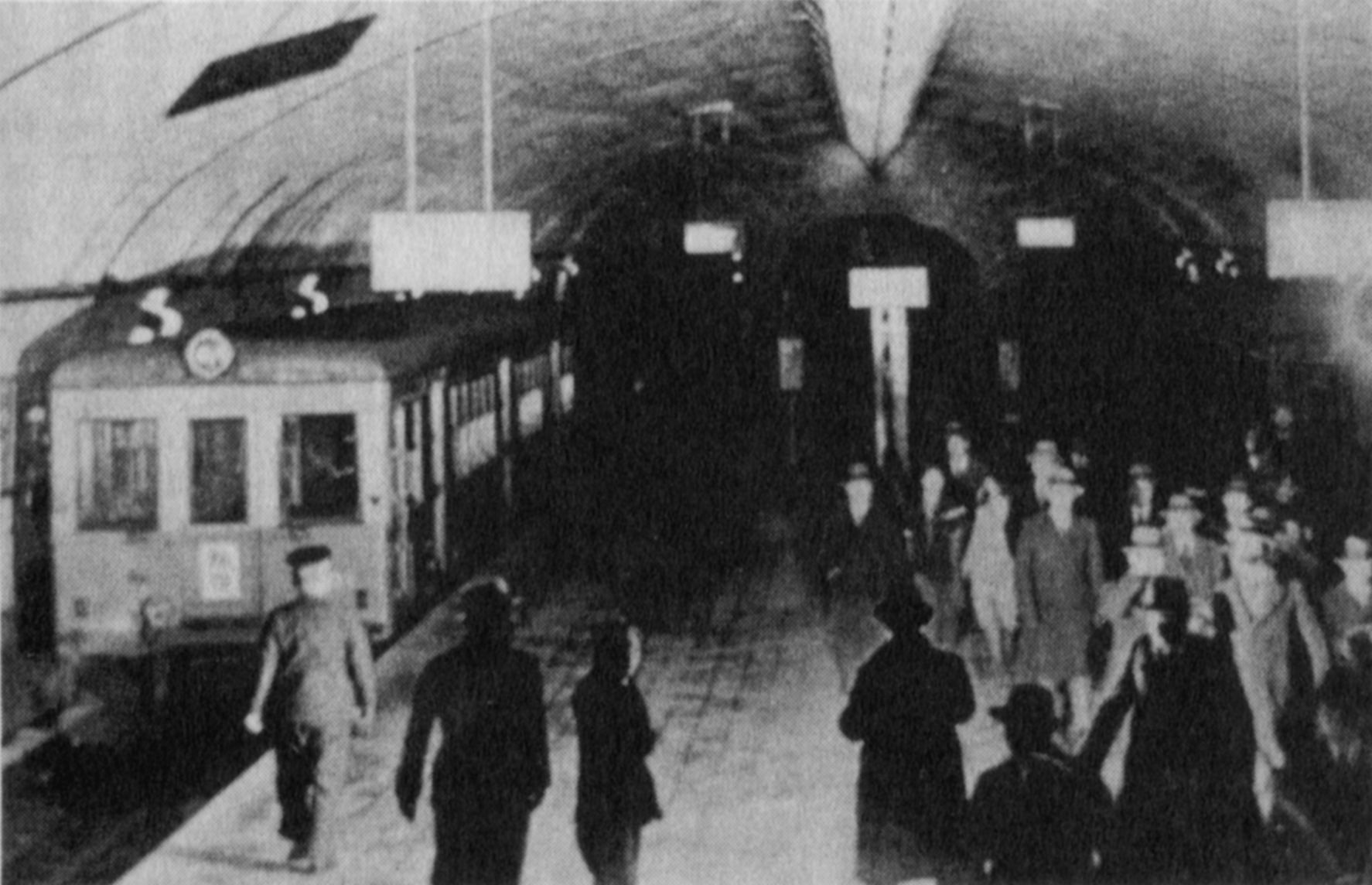 Midosujisen Yodoyabashi station platform of opening original at 1933